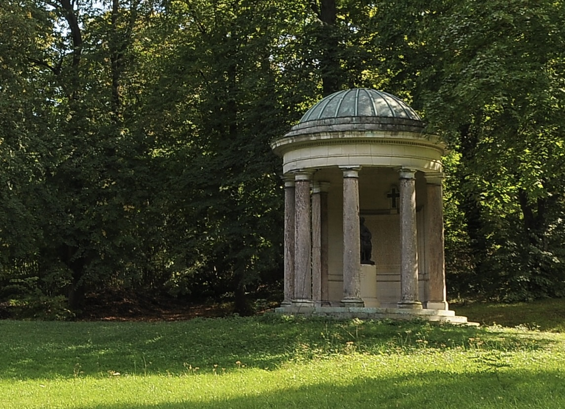 The memorial of prince Eugène Louis Jean Joseph-Napoléon Bonaparte, son of Napoléon III and Eugénie at Rueil-Malmaison in France